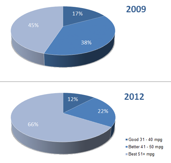 Graphs shows percentage of Americans that live in regions where powering an electric vehicle on the regional electricity grid produces lower global warming emissions than a gasoline car expressed in terms of combined cith/highway fuel economy rating of that car (a gasoline-powered car that would have global warming emissions equivalent to driving an EV). Graphs show change from 2009 to 2012 as the electric grid gets cleaner. Source: Union of Concerned Scientist, cleaner Cars from Cradle to Grave, based on data on Figure 5, pp. 14